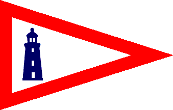 United States Lighthouse Service pennant, flown by its lightships and lighthouse tenders.